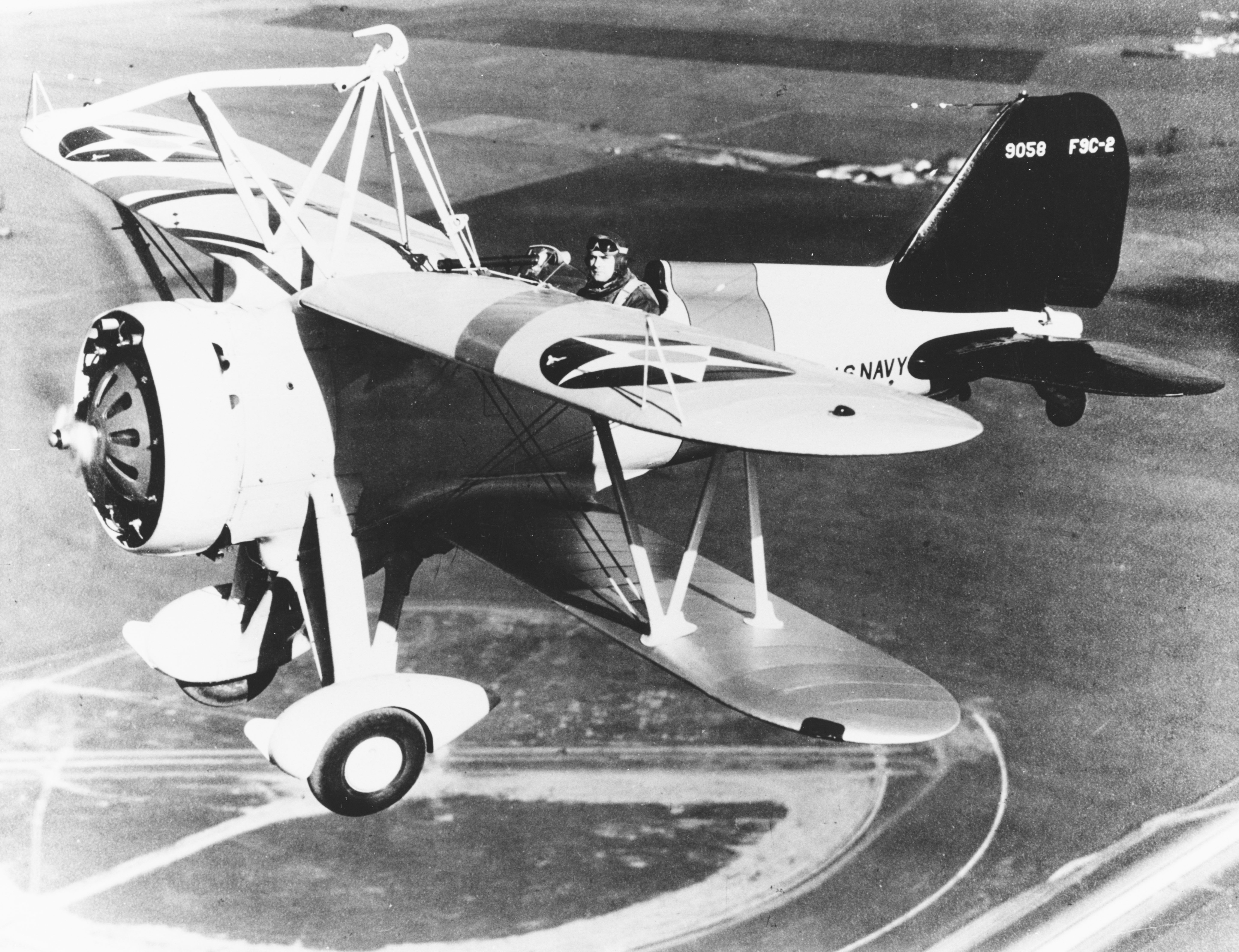 A Curtiss F9C-2 Sparrowhawk (BuNo 9058) in flight over Moffett Field, California in 1934, flown by Lt. 'Min' Miller. This aircraft was lost with the USS Macon (ZRS-5).